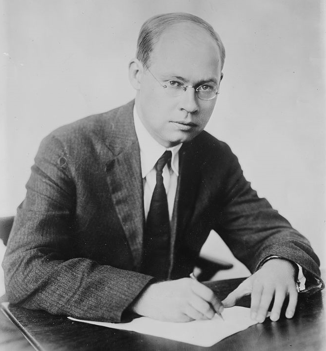 American mystery writer, journalist and screenwriter Arthur Benjamin Reeve (1880-1936)